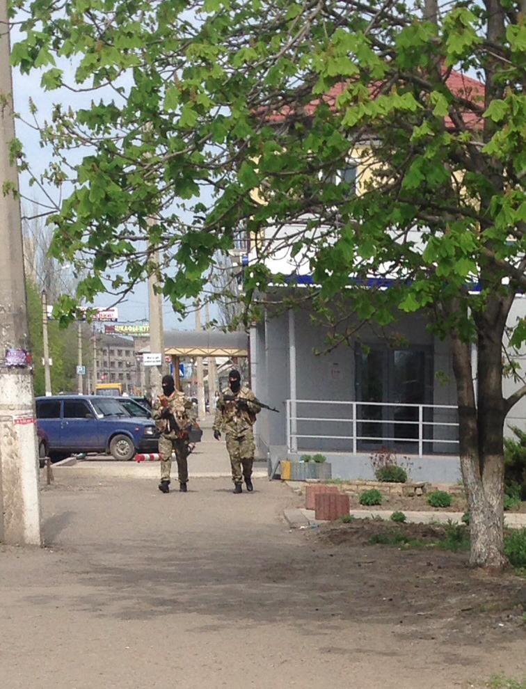 Masked armed men in Sloviansk, Donetsk oblast, Ukraine, during the Sloviansk standoff. The author of this photo, Aleksandr Sirota, visited his parents in the city on Easter holidays.